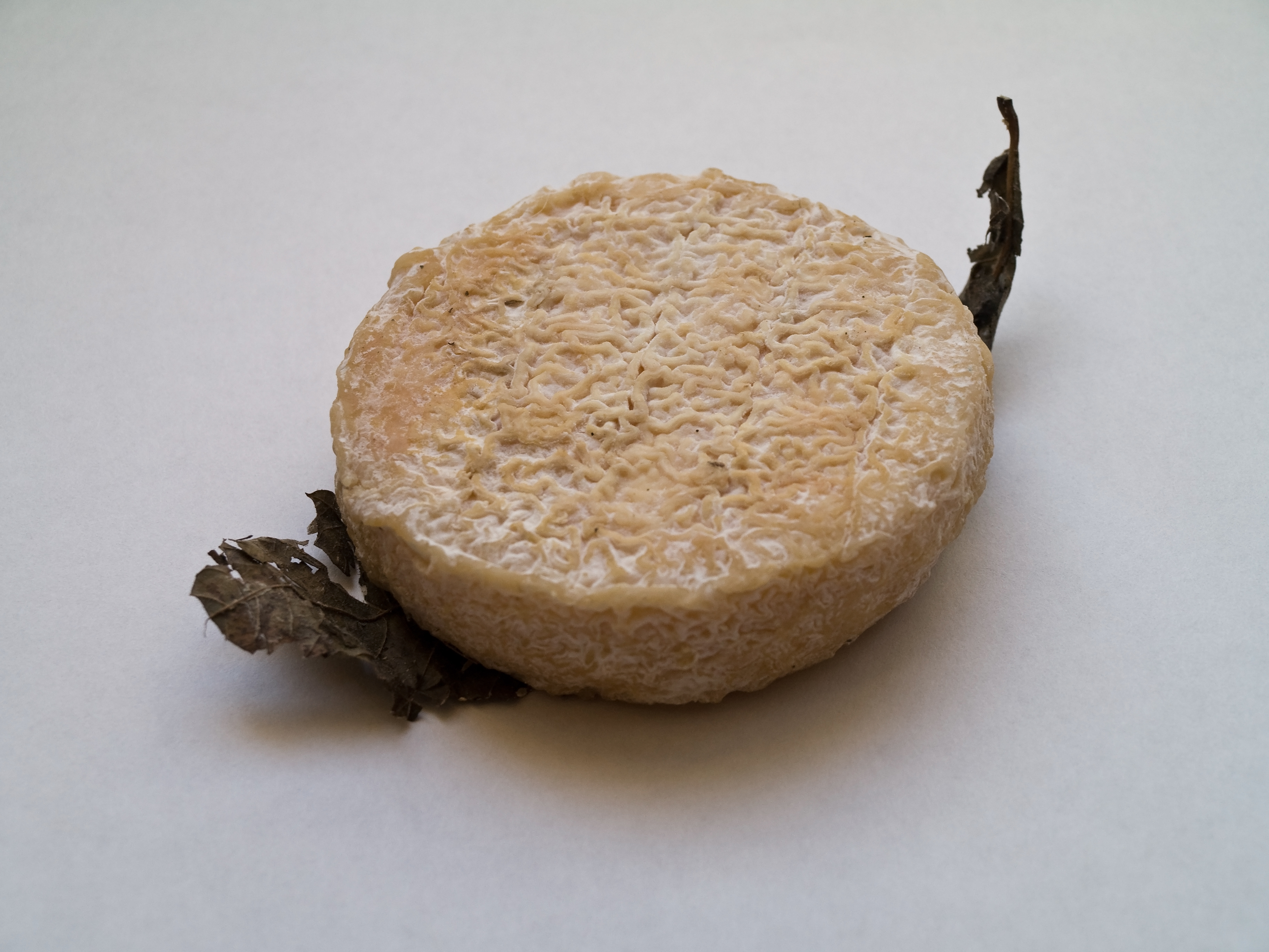 Mothais sur feuille is a French goat's-milk cheese, made in the Poitou-Charentes region of France. It is refined and served on a leaf, most commonly a sweet chestnut one.